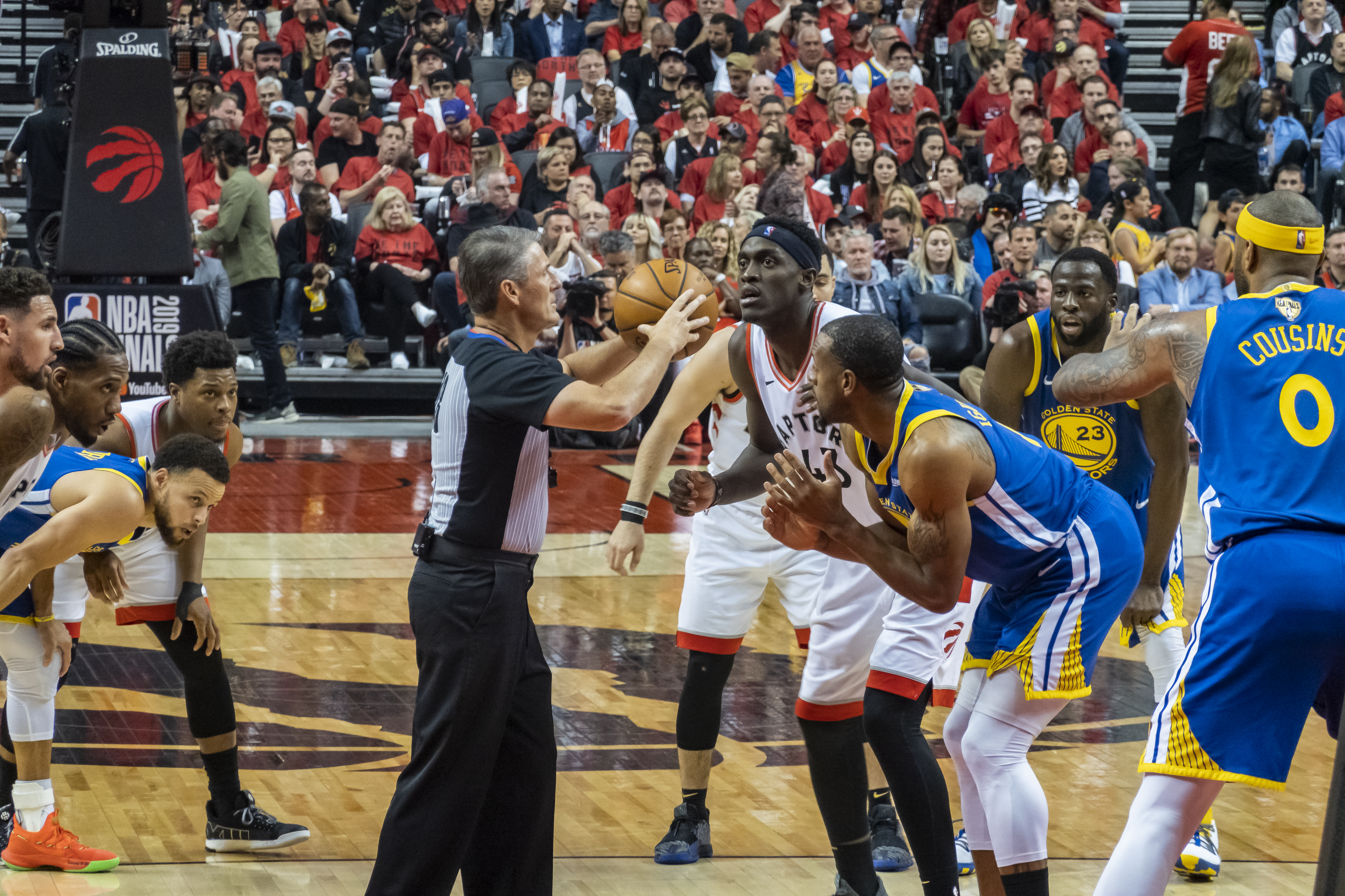 Pascal Siakam going for a jump ball at Game 2 of the 2019 NBA Finals